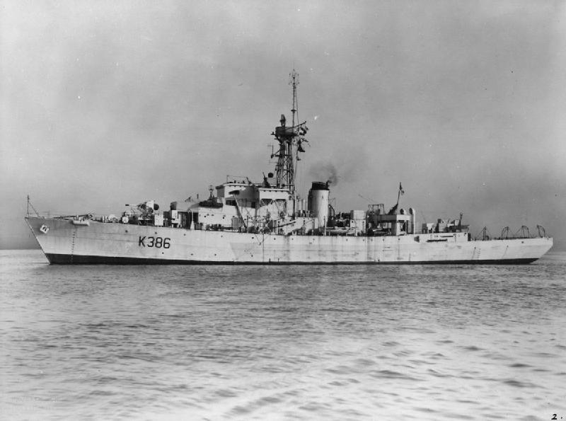 Photograph of British corvette HMS Amberley Castle.